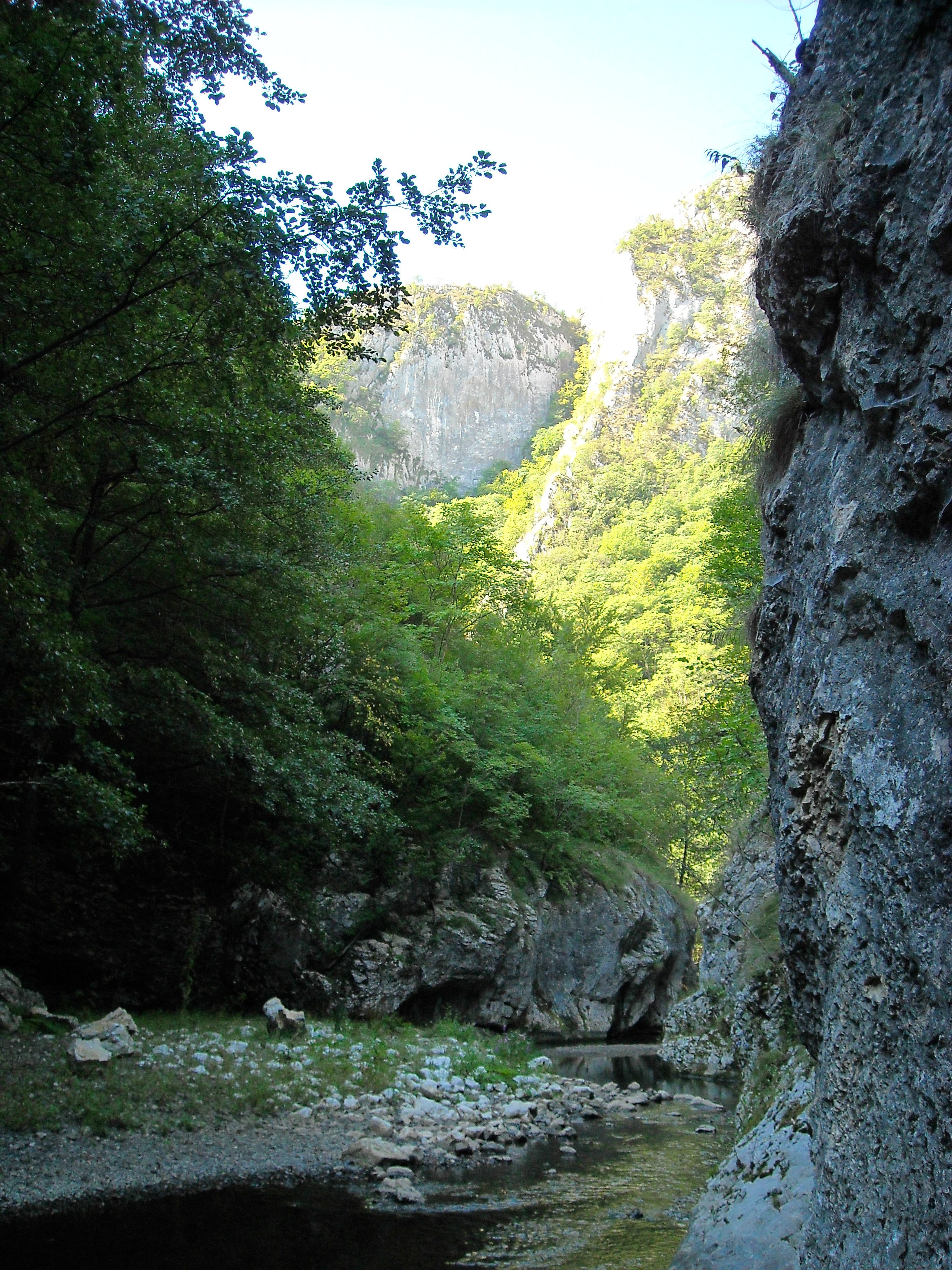 the Mada Gorge (Cheile Măzii or Madei) in the Munţii Metaliferi mountains, Romania